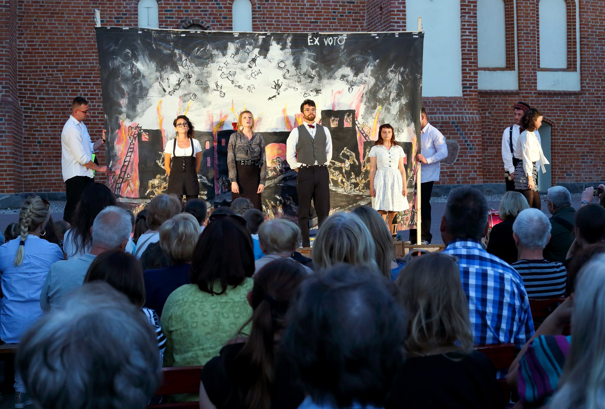 The Bread and Puppet Theatre na XXXI MFT WALIZKA na tle frontonu łomżyńskiej katedry.